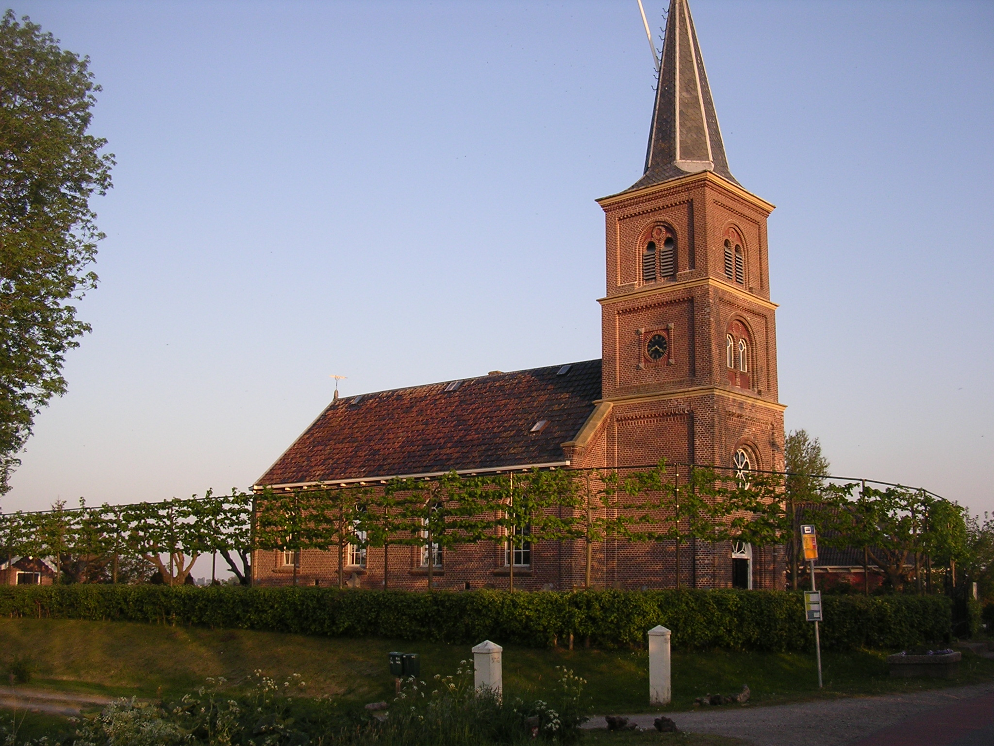 Catherinachurch in Jislum